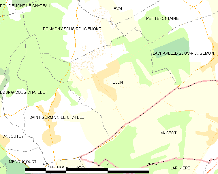 Map of French municipality Felon